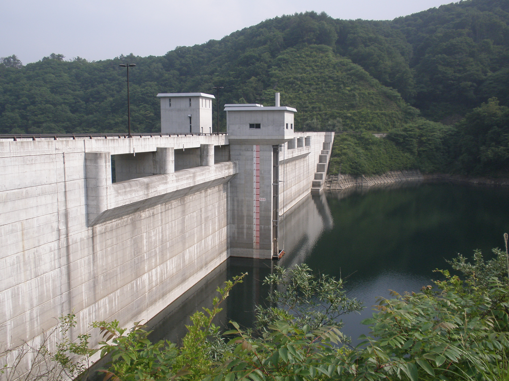 Mimurogawa Dam on the Mimuro river (tributary of Takahashi river), Niimi, Okayama.